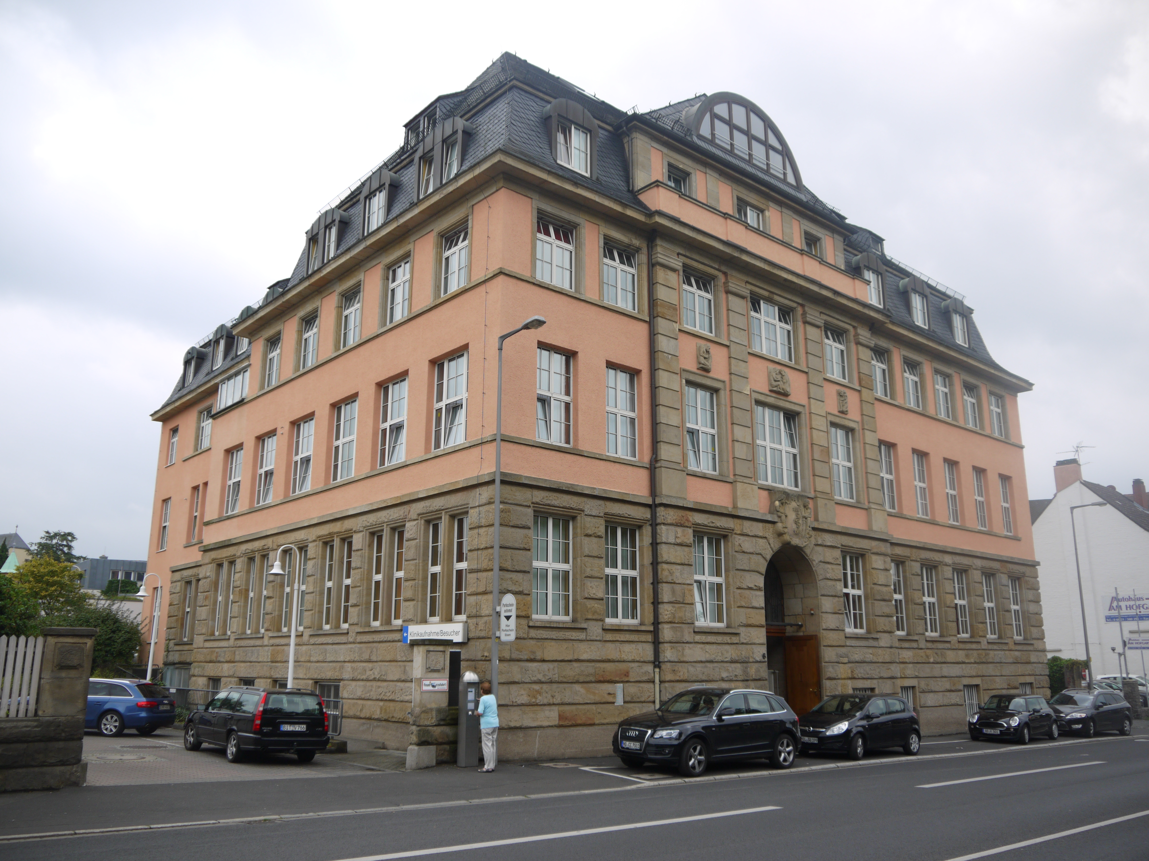 Hofgartenstraße 6, Aschaffenburg, Germany: landmarked building